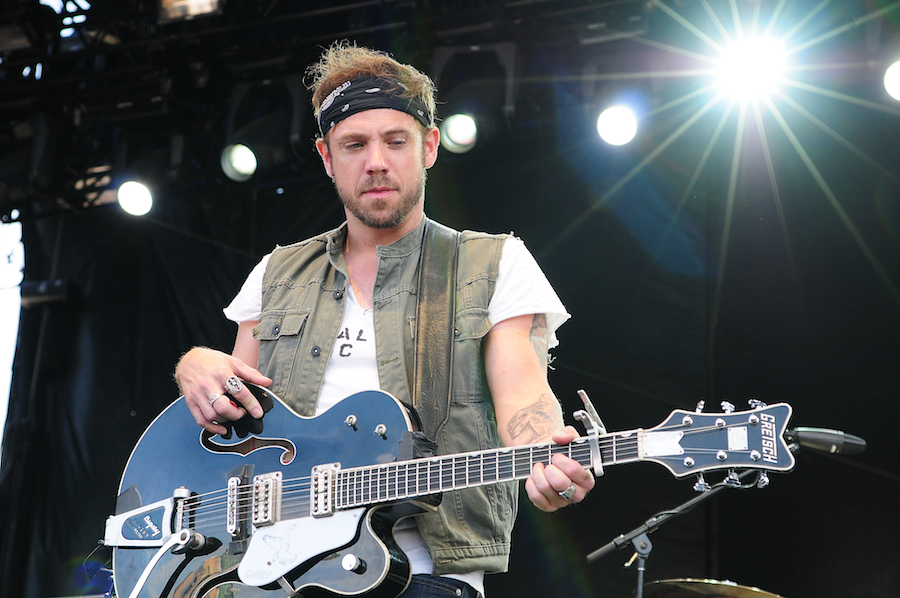 Mikel Jollett. Airborne Toxic Event at the 2012 RBC Royal Bank Bluesfest in Ottawa.